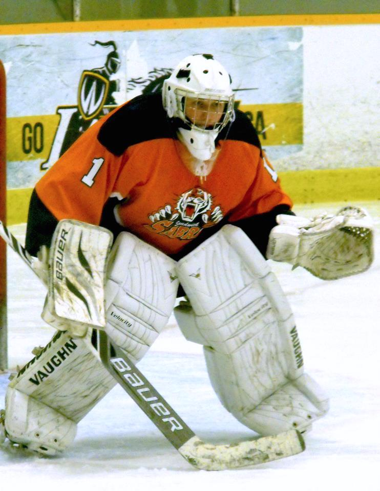 This photo was taken by Devan Mighton during the 2014-15 WECSSAA season.